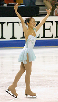 Yukina Ota competes her long program at the 2004 Four Continents Championships in Hamilton, Ontario.